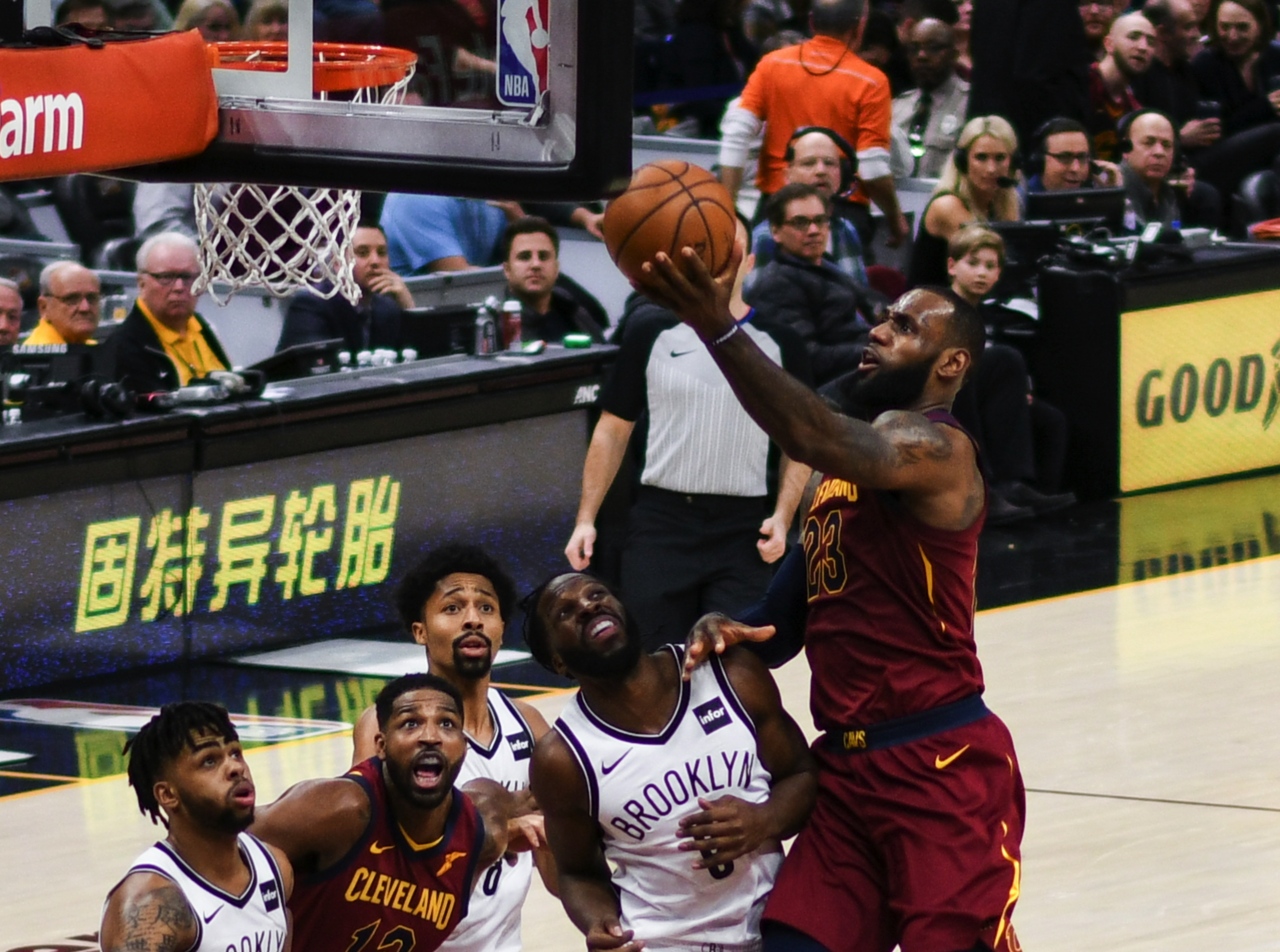 LeBron James attempting a layup during a game